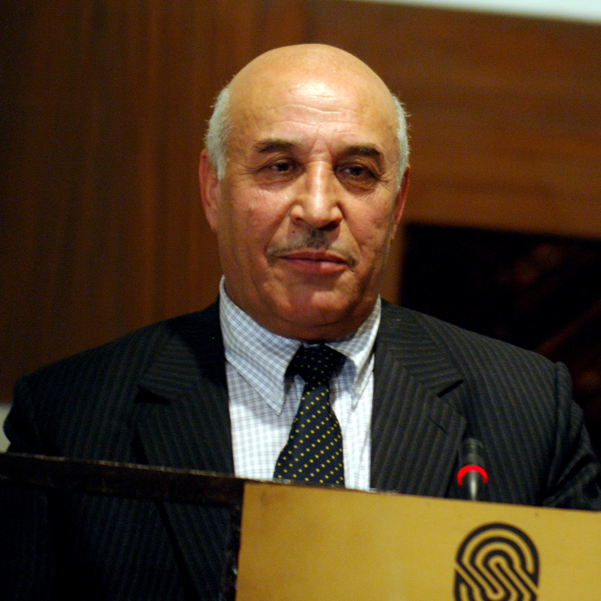 Mohammad Eshaq Aloko at the CJTF Conference (Counter Narcotics Justice Task Force) in Kabul, Afghanistan.